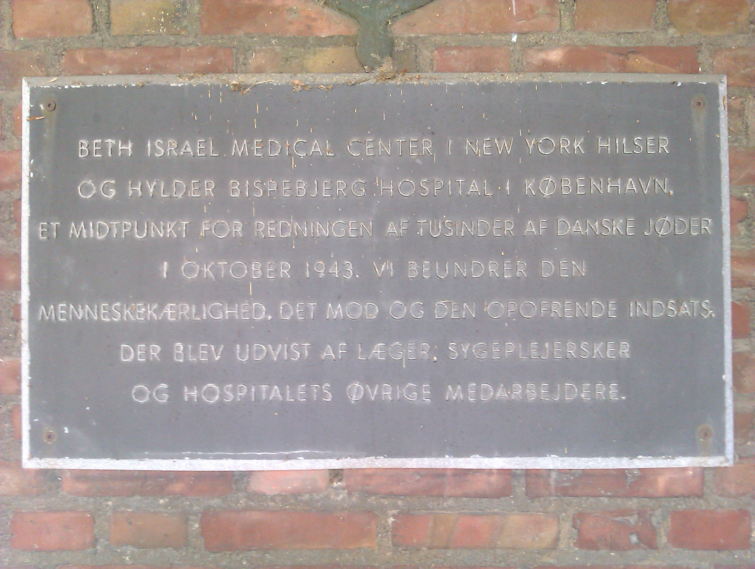 Commemorative plaque for the rescue of the Danish Jews at Bispebjerg Hospital, Copenhagen. Inscription reads in